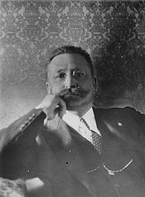 Title Portrait photograph of Mario Rodi Lago Contributor Names Genthe, Arnold, 1869-1942, photographer Created / Published between 1929 and 1942; from a negative taken in 1929. Format Headings Lantern slides. Portrait photographs. Notes - Title devised. - Purchase; Genthe Estate; 1942 or 1943. - ID: see images at 5617 (in several series) Medium 1 slide : lantern ; 4 x 5 in. or smaller. Call Number/Physical Location LC-G4085- 0384 [P&P]